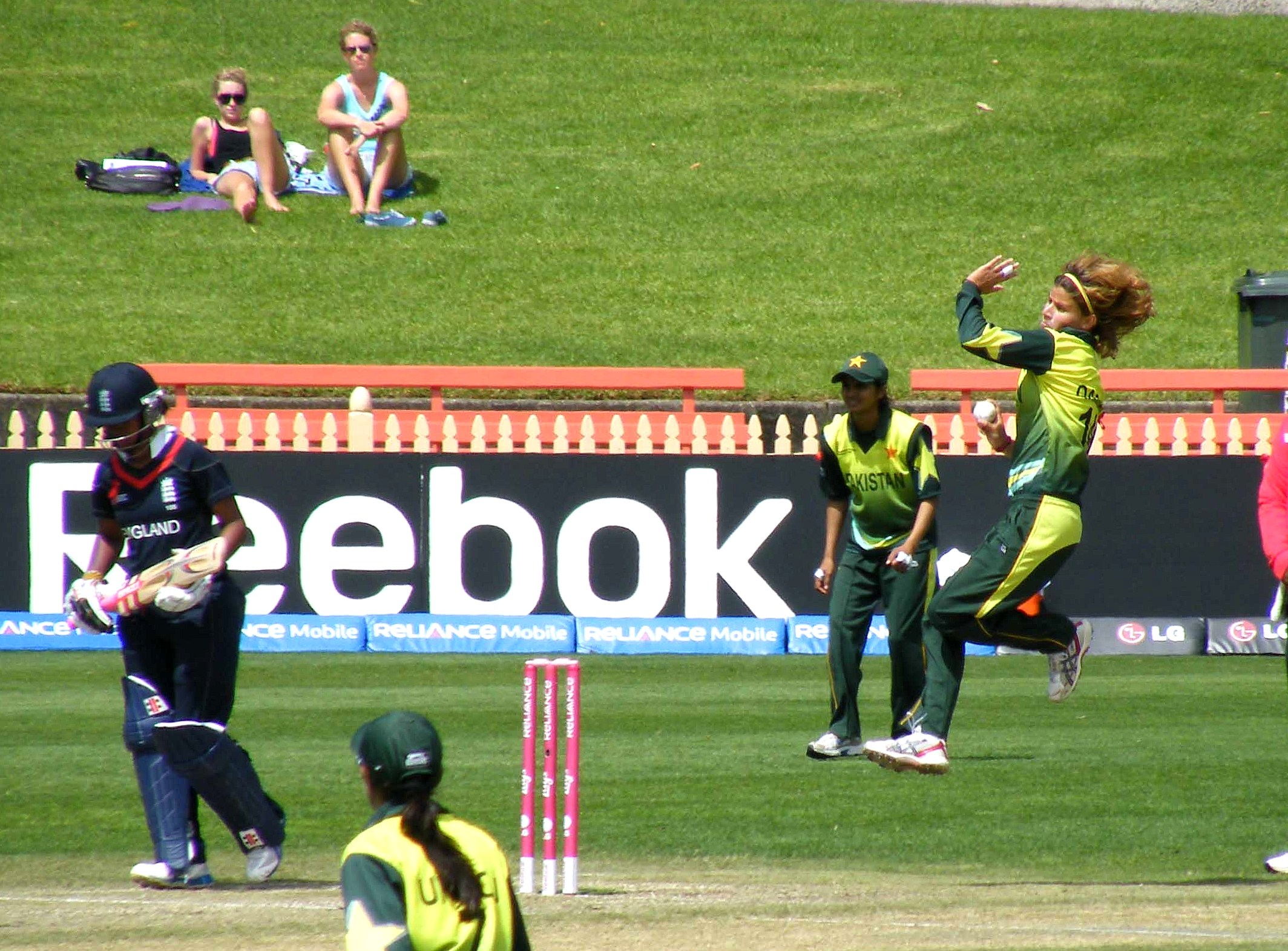 Qanita Jalil of Pakistan - - ICC Women's Cricket World Cup - Sydney, March 2009.